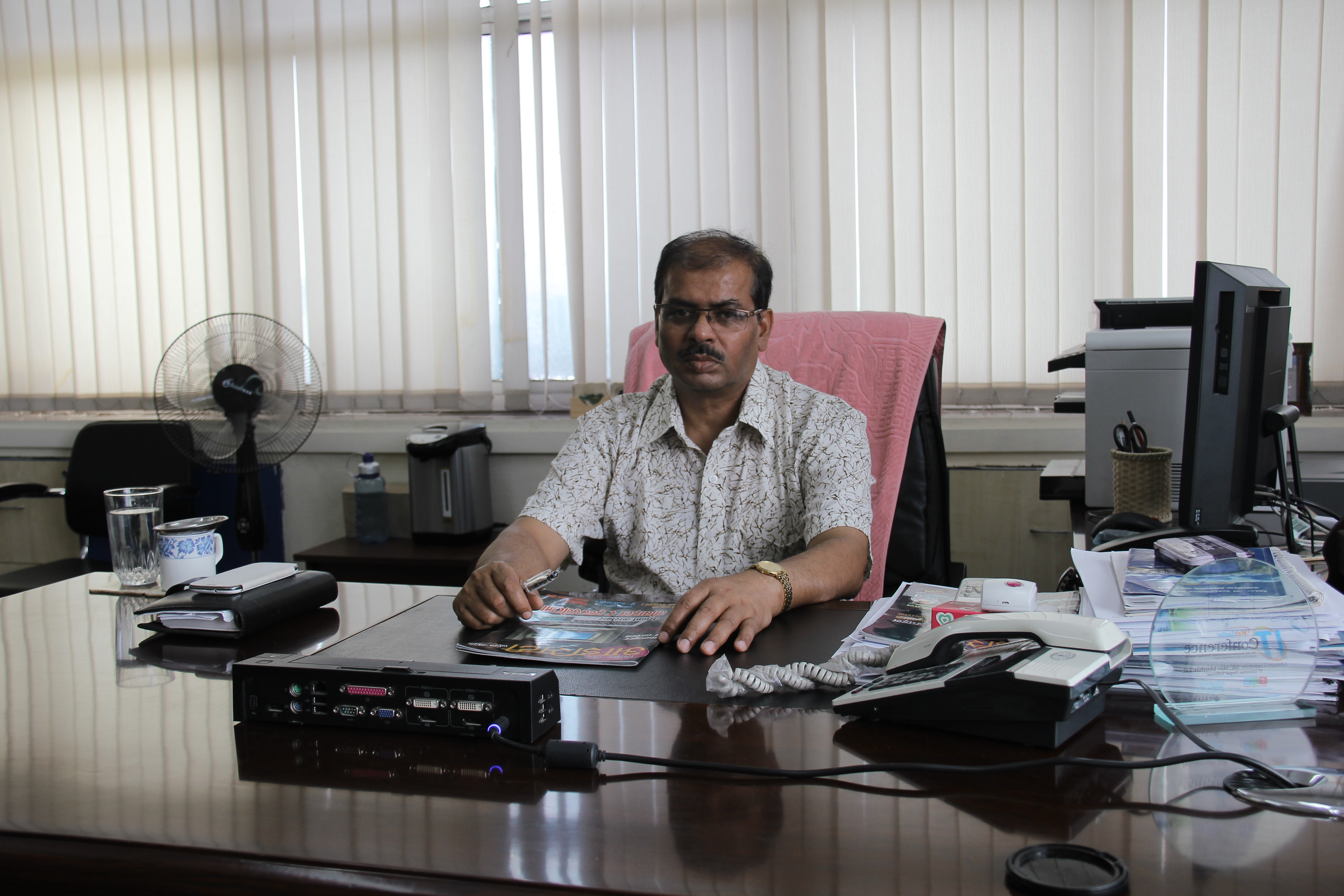 Shiv Bhushan Lal in Nepal Telecom Office